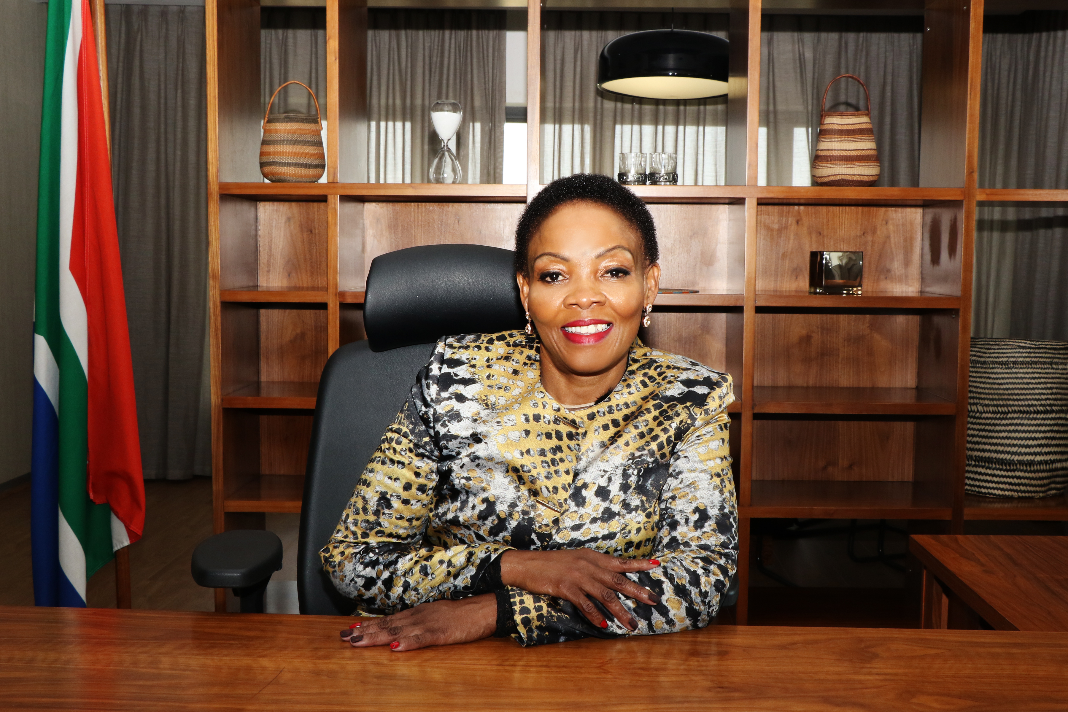 Pinky Sharon Kekana, South African politician and Deputy Minister of Communications